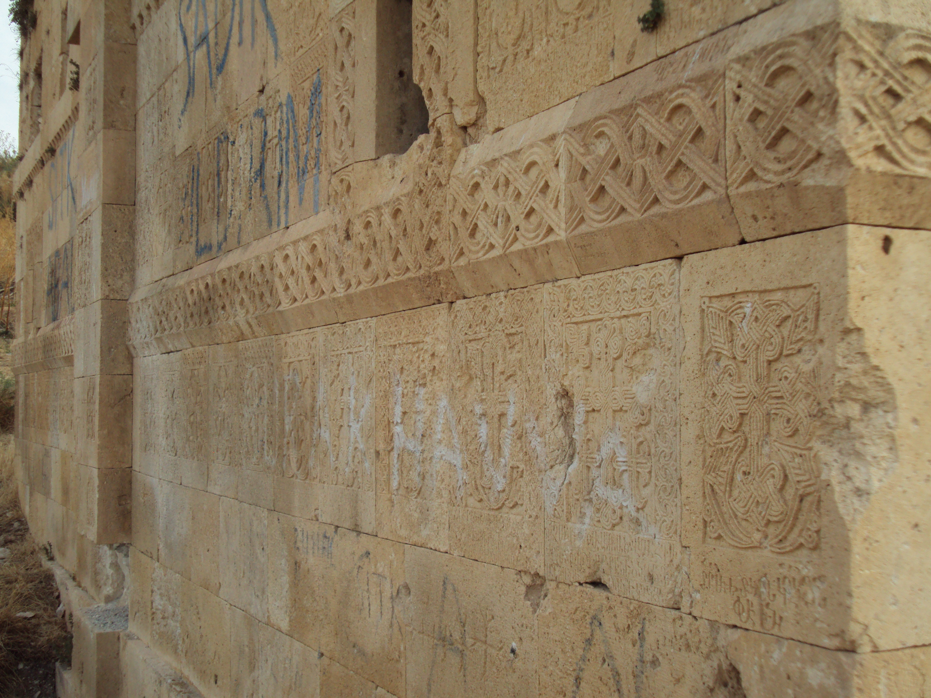 15th century Armenian monastery on the small island of Ktuts (Çarpanak) in Lake Van, Vaspurakan (present-day Turkey)